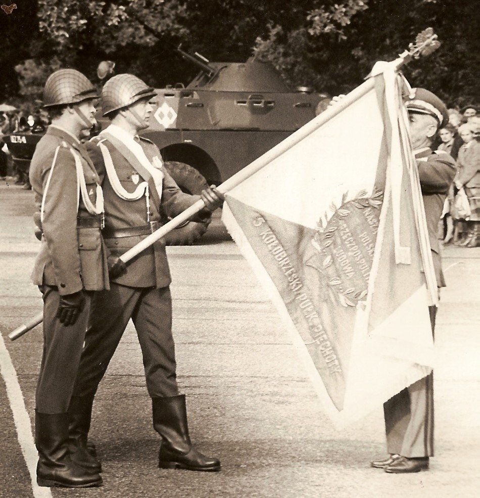 Banner of